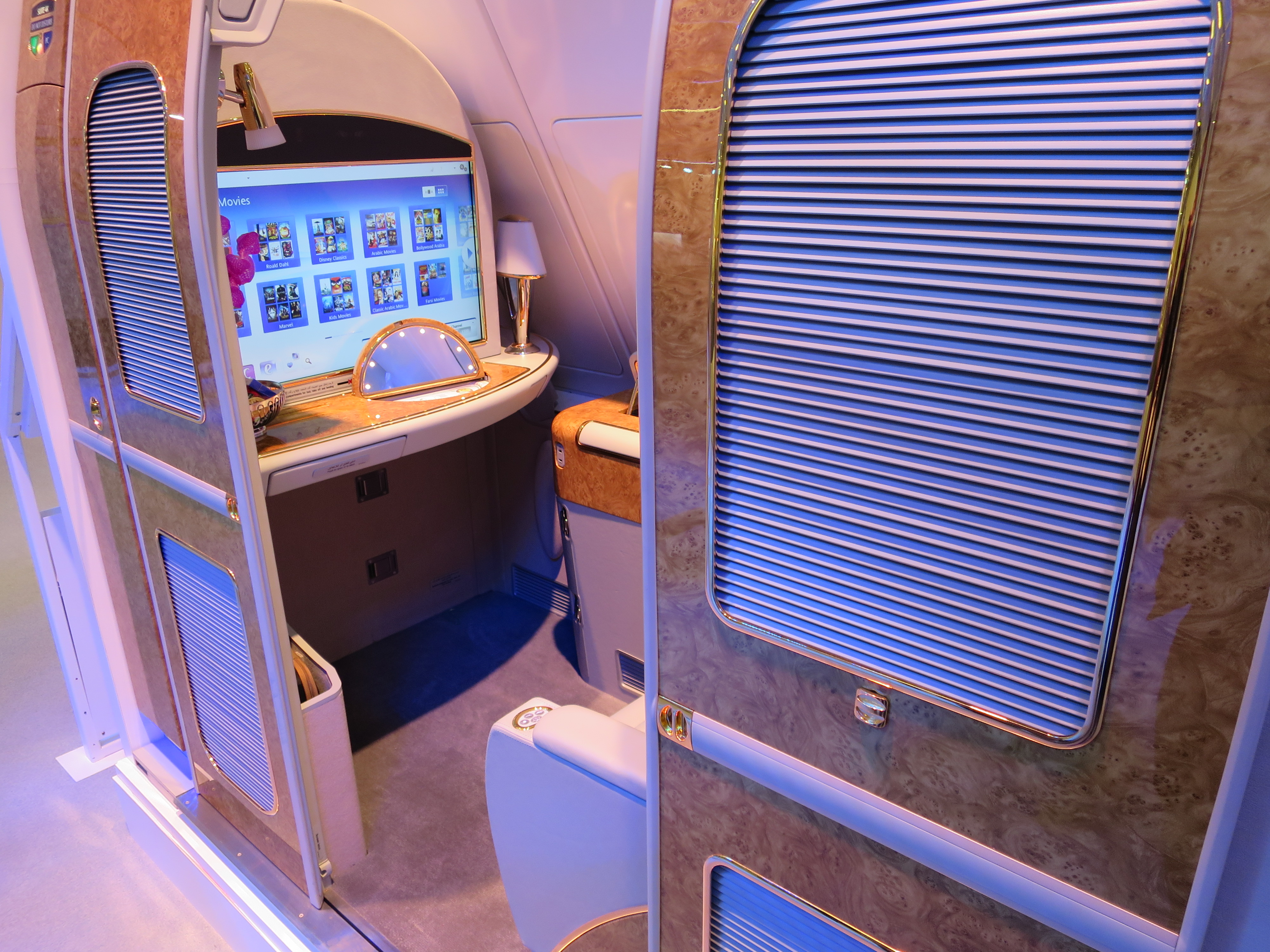 Emirates A380 First Class Suite ITB 2017.